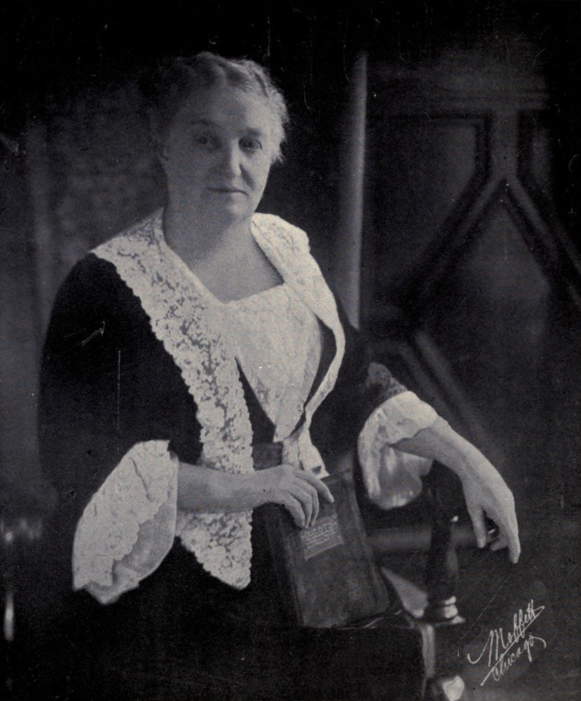 Letitia Green Stevenson, the wife of United States Vice President Adlai Stevenson from In memoriam: Letitia Green Stevenson, Adlai Ewing Stevenson (1910)